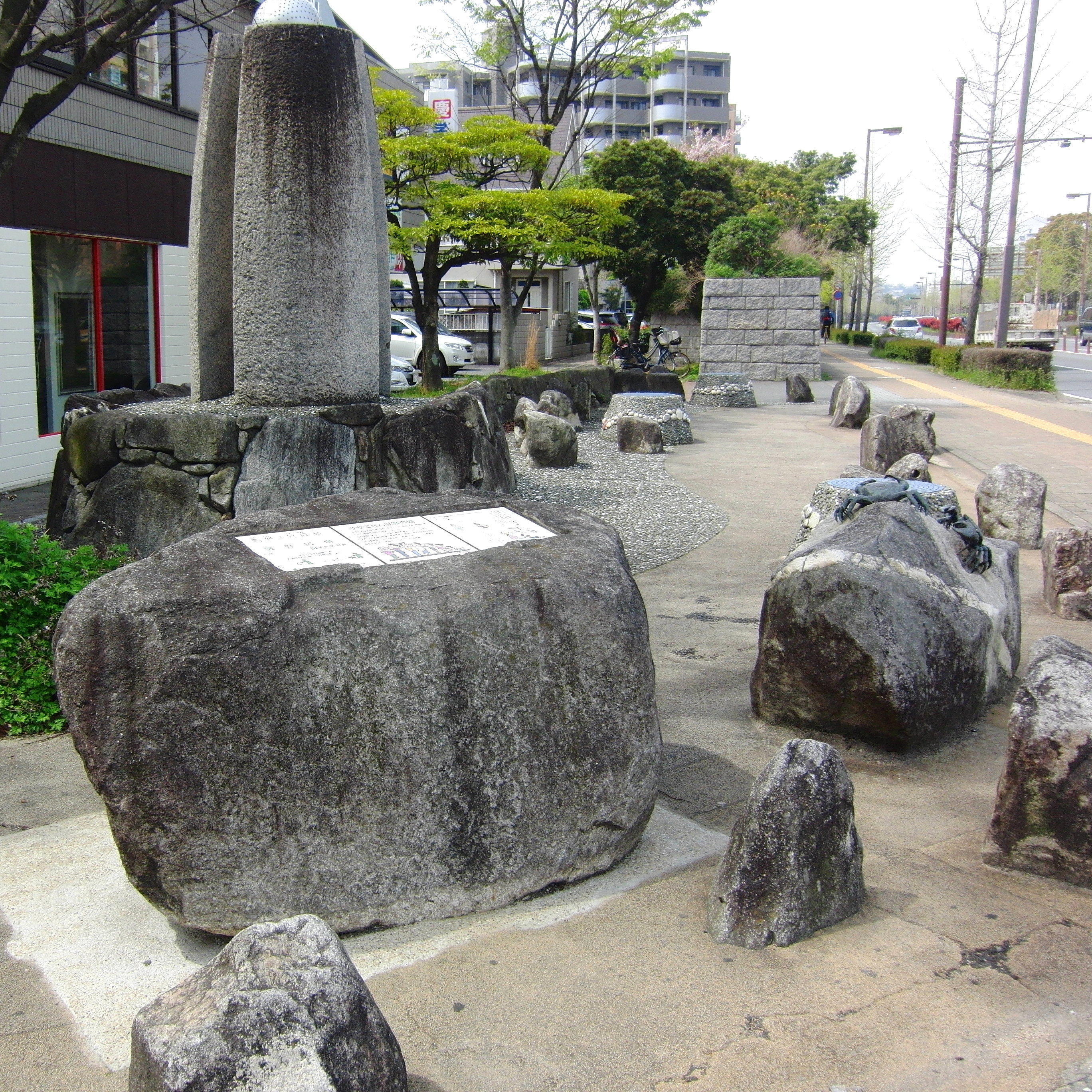 Isono open space, Nishijin, Sawara-ku, Fukuoka, Japan. The monument of the ground of the "Sazae-san" suggestion.